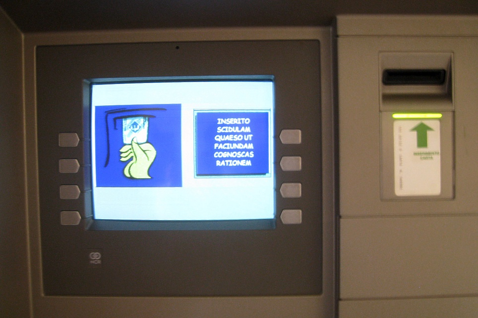 Automatic Teller Machine in Vatican City, showing instructions in Latin language. "Inserito scidulam quaeso ut faciundam cognoscas rationem"